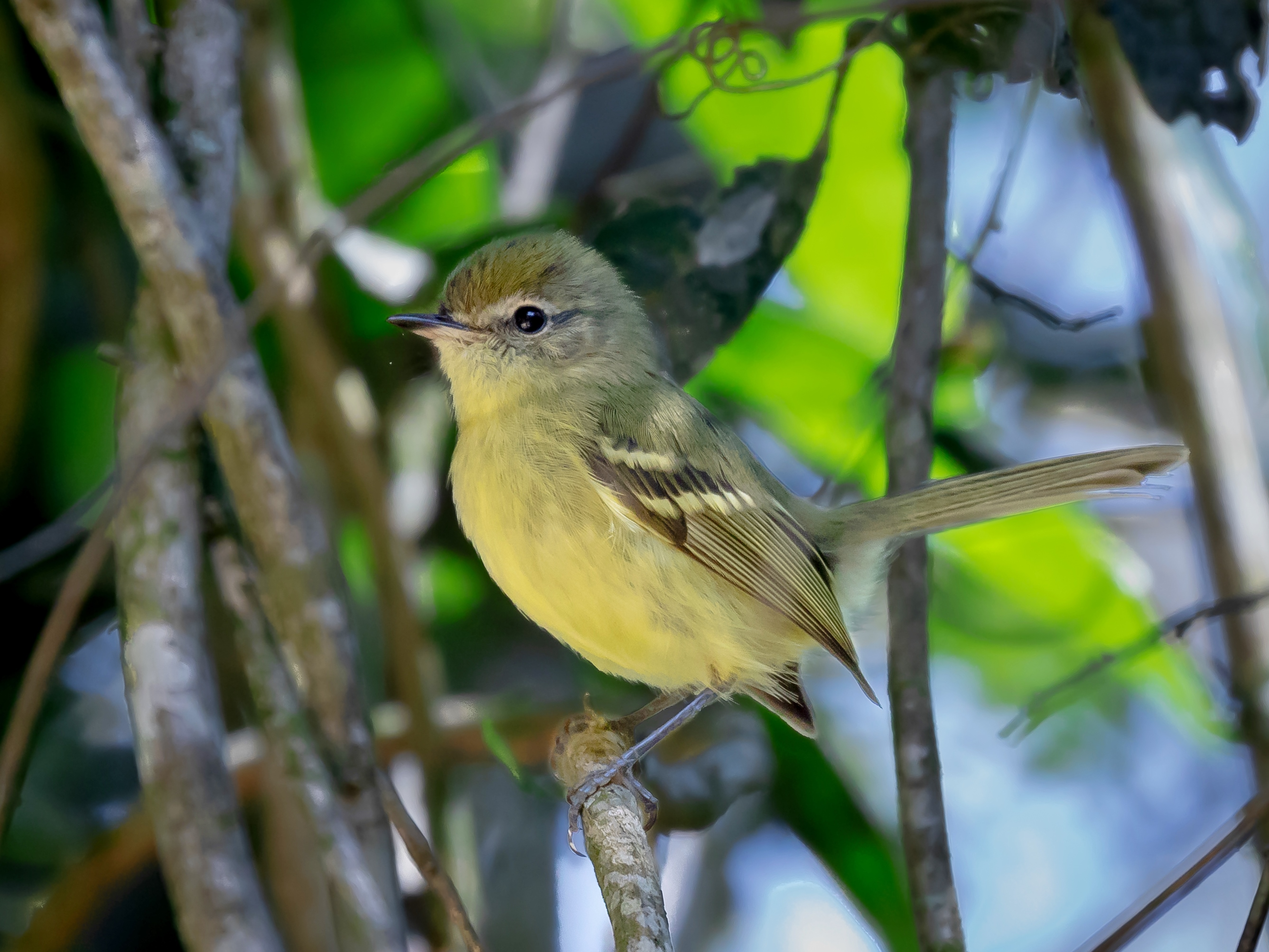 Mottle-checked tyrannulet; Monteiro Lobato, São Paulo, Brazil